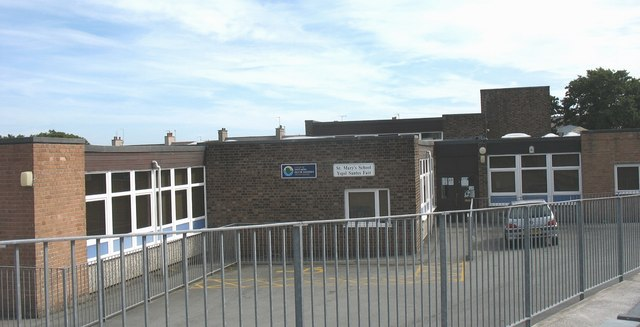 Ysgol Gatholig y Santes Fair ; St Mary's Catholic School This is the only Catholic primary school in Anglesey.